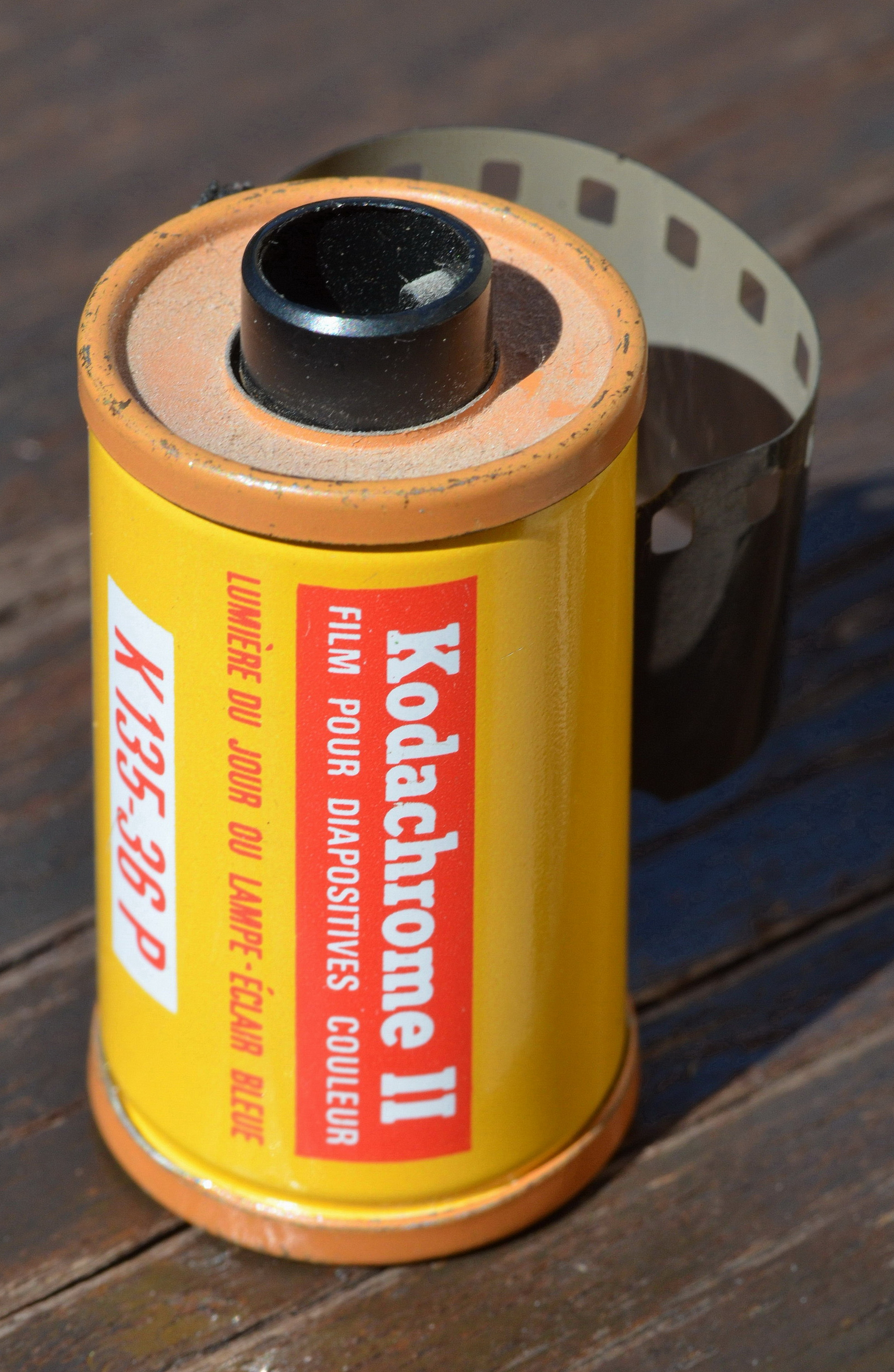 Kodachrome II - Film for colour slides. Kodachrome is a brand name for a non-substantive, color reversal film introduced by Eastman Kodak in 1935.